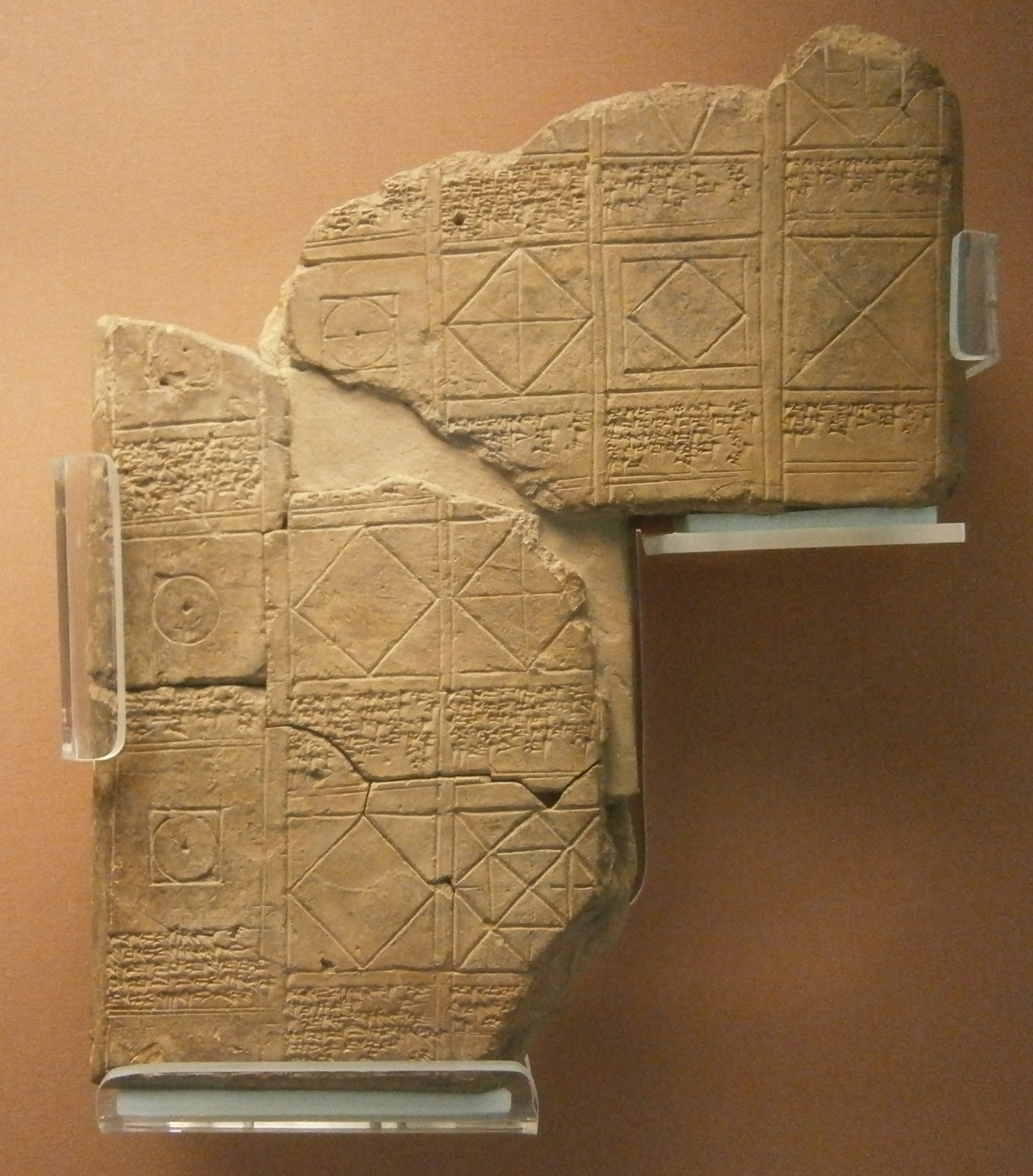 Mathematical tablet, partly illustrated, containing a set of problems relating to the calculation of volume, with the solutions. From Larsa, Old Babylonian period. ME 15285.